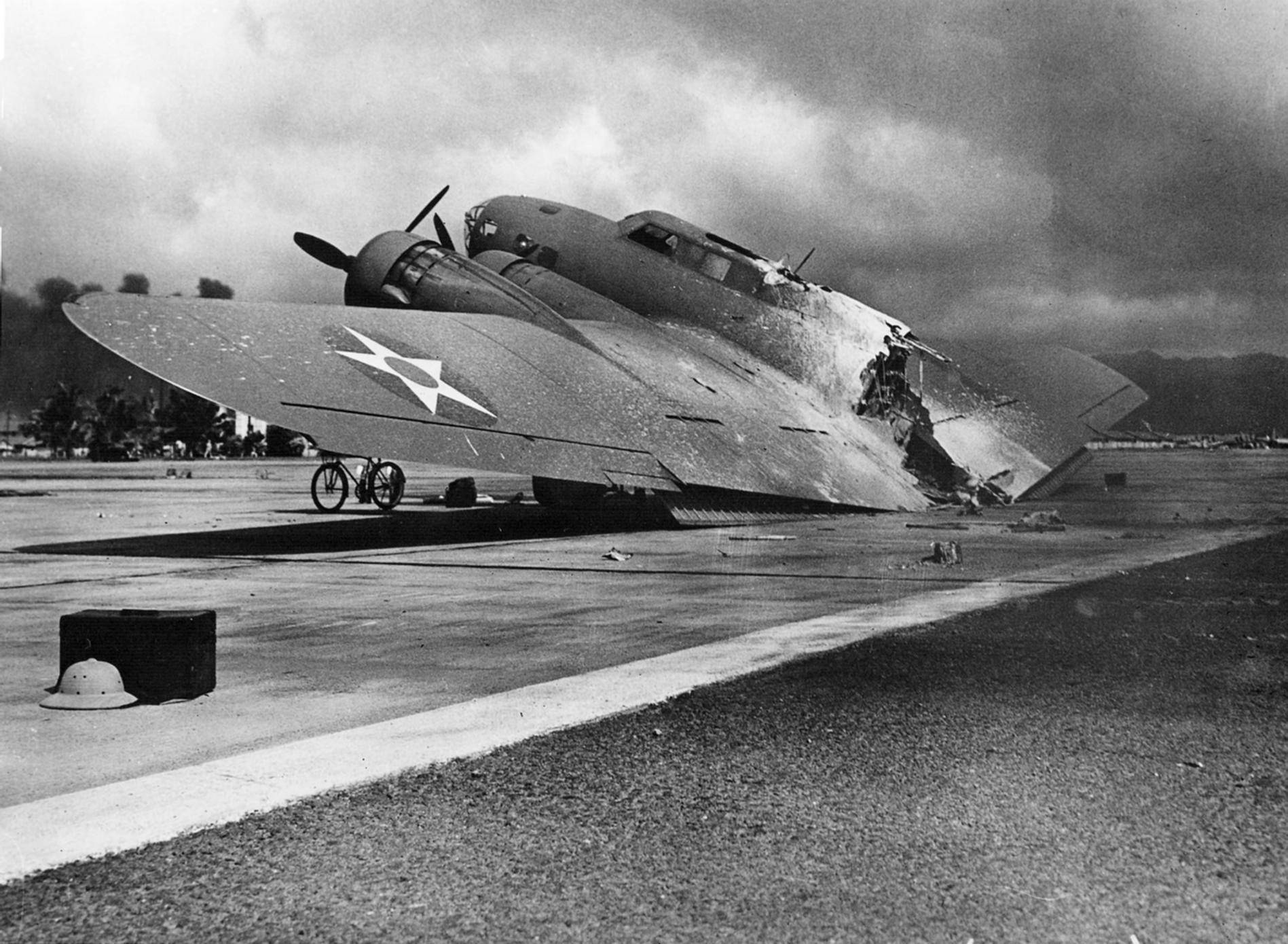 A burned U.S. Army Air Forces Boeing B-17C Flying Fortress (s/n 40-2074) rests near Hangar 5, Hickam Field, Oahu, Hawaii (USA), on 7 December 1941. It was flown to Hickam by Captain Raymond T. Swenson from California and arrived during the attack. On its final approach, the aircraft’s magnesium flare box was hit by Japanese strafing and ignited. The burning plane separated upon landing. The crew survived the crash, but a flight surgeon was killed by strafing as he ran from the burning wreck.